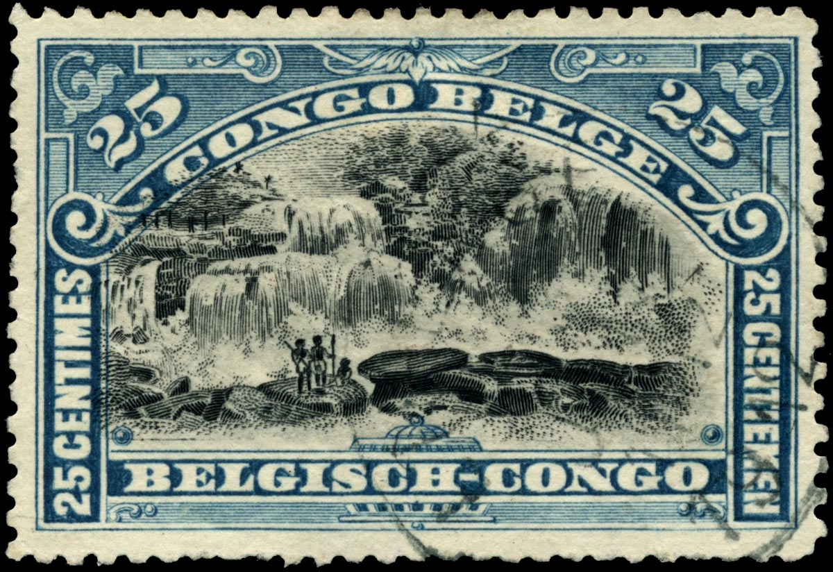 Belgian Congo 25-centime stamp of 1910, showing Inkisi Falls.